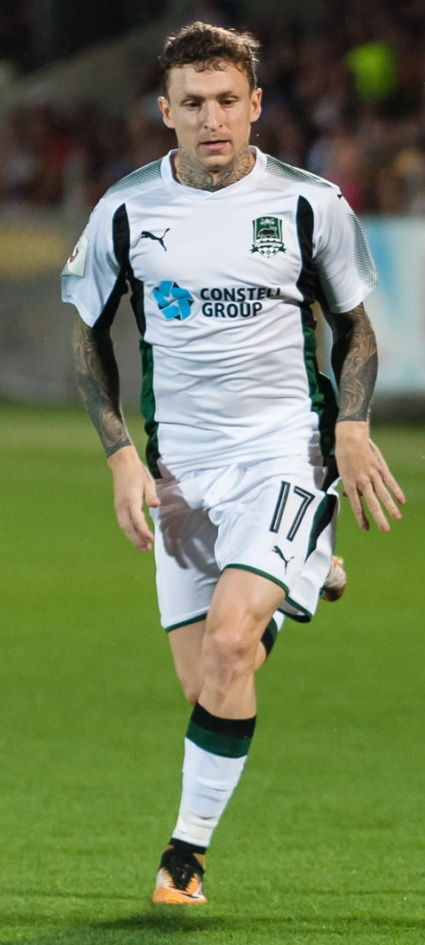 Pavel Mamayev with FC Krasnodar in a game against FC Rostov.